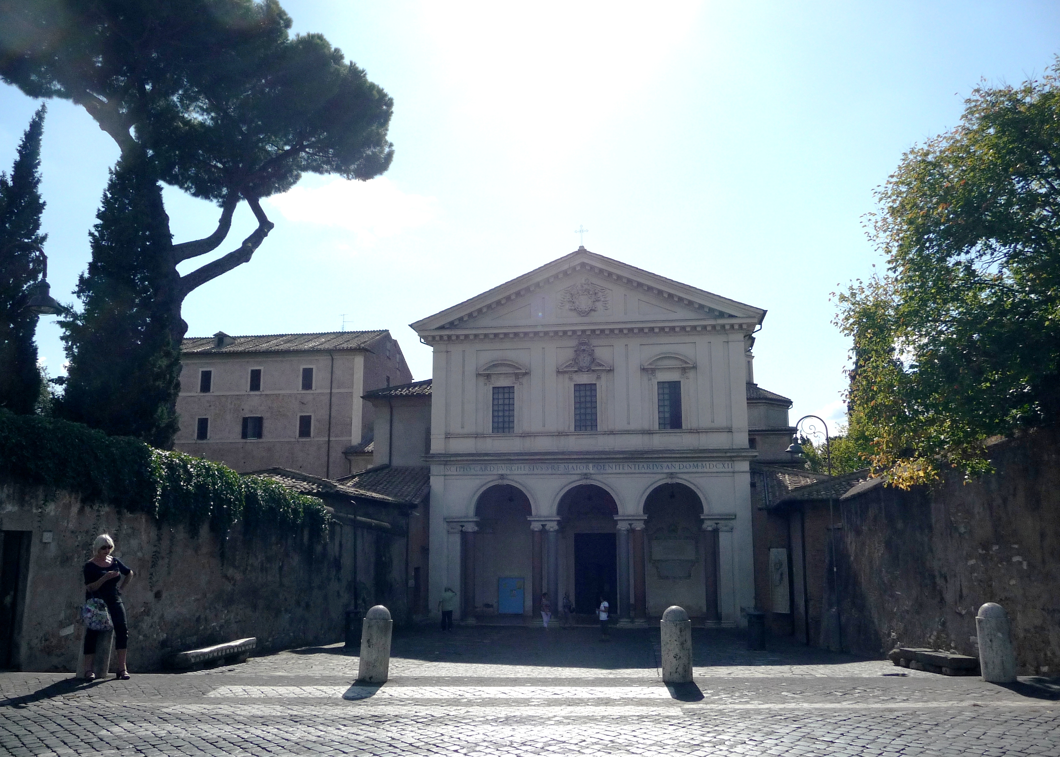 Basilica San Sebastiano fuori le mura (Saint Sebastian outside the walls), or San Sebastiano ad Catacumbas (Saint Sebastian at the Catacombs), is a basilica in Rome. Up to the Great Jubilee of 2000, San Sebastiano was one of the Seven Pilgrim Churches of Rome, and many pilgrims still favor this traditional list. Built originally in the first half of the 4th century, the basilica is dedicated to St. Sebastian, a popular Roman martyr of the 3rd century. The name ad catacumbas refers to the catacombs of St Sebastian, over which the church was built, while "fuori le mura" refers to the fact that the church is built outside the Aurelian Walls, and is used to differentiate the basilica from the church of San Sebastiano al Palatino on the Palatine Hill. According to the founding tradition, in 258, during the Valerian persecutions, the catacombs were temporarily used as place of sepulture of two other saints martyred in Rome, Peter and Paul, whose remains were later transferred to the two basilicas carrying their names: whence the original dedication of the church, Basilica Apostolorum ("Basilica of the Apostles"). The dedication to Sebastian dates to the 9th century. Sebastian's remains were moved here around 350. They were transferred to St. Peter's in 826, fearing a Saracen assault: the latter, in fact, materialized, and the church was destroyed. The building was refounded under Pope Nicholas I (858-867), while the martyr's altar was reconsecrated by Honorius III, by request of the Cistercians, who had received the place. In the 13th century the arcade of the triple nave was walled in. The current edifice is largely a 17th-century construction, commissioned by Cardinal Scipione Borghese in 1609 from Flaminio Ponzio and, after Ponzio's death in 1613, entrusted to Giovanni Vasanzio, who completed it.